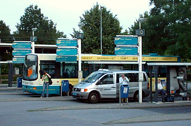 A taxi-bus is used on bus lines with little traffic; here shown next to a 'normal' bus. Assen, the Netherlands.